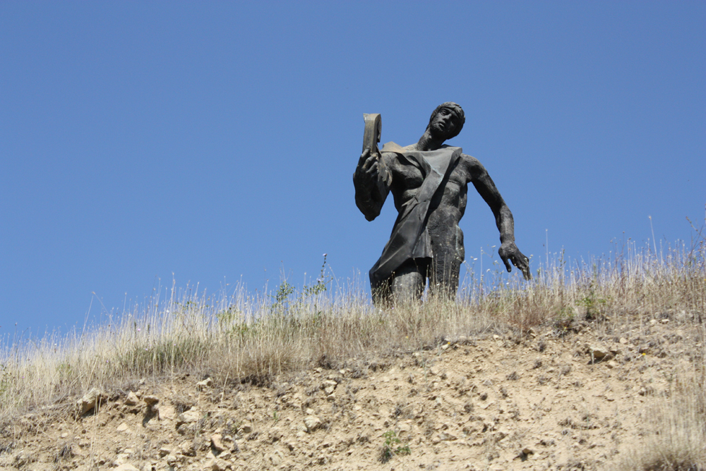 A statue of Orpheus, Kardzhali, Bulgaria